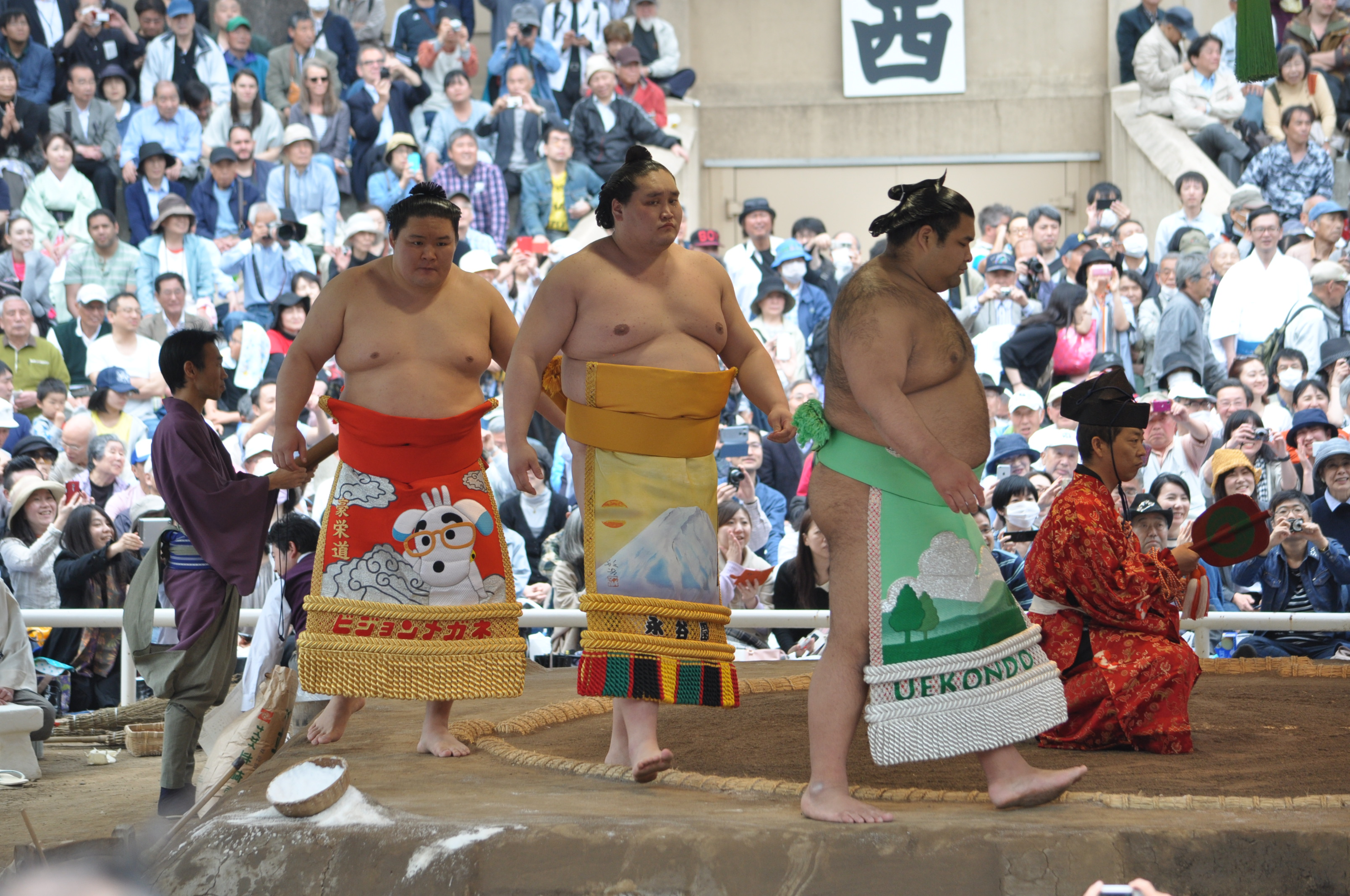 (From left to right) Gōeidō Gōtarō, Terunofuji Haruo and Takayasu Akira